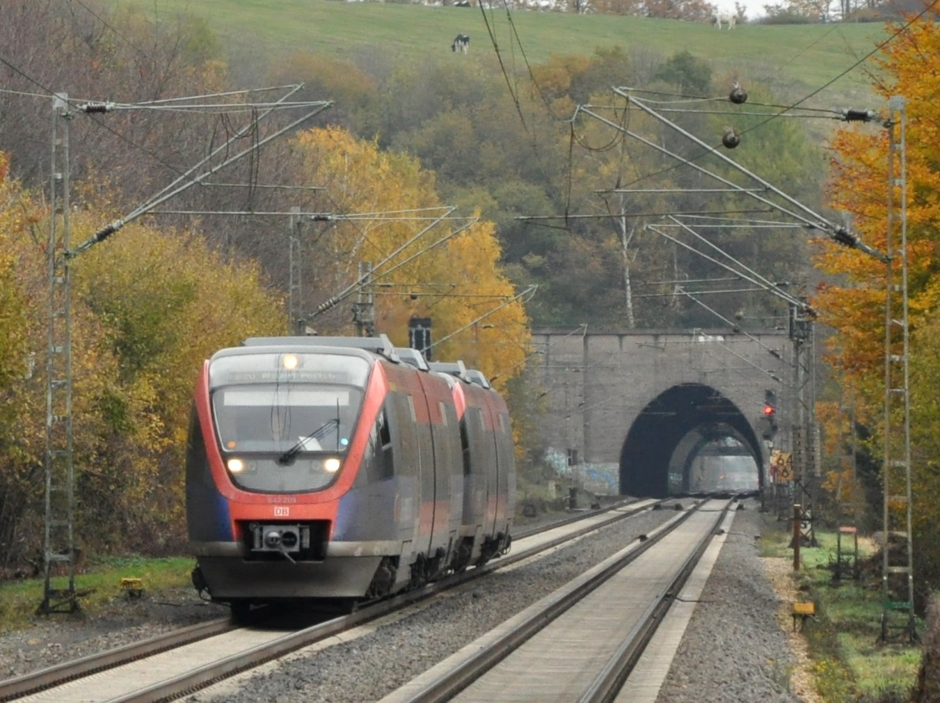 Euregiobahn unit 643 209 from Stolberg Altstadt to Alsdorf Poststraße passing the Eilendorfer Tunnel